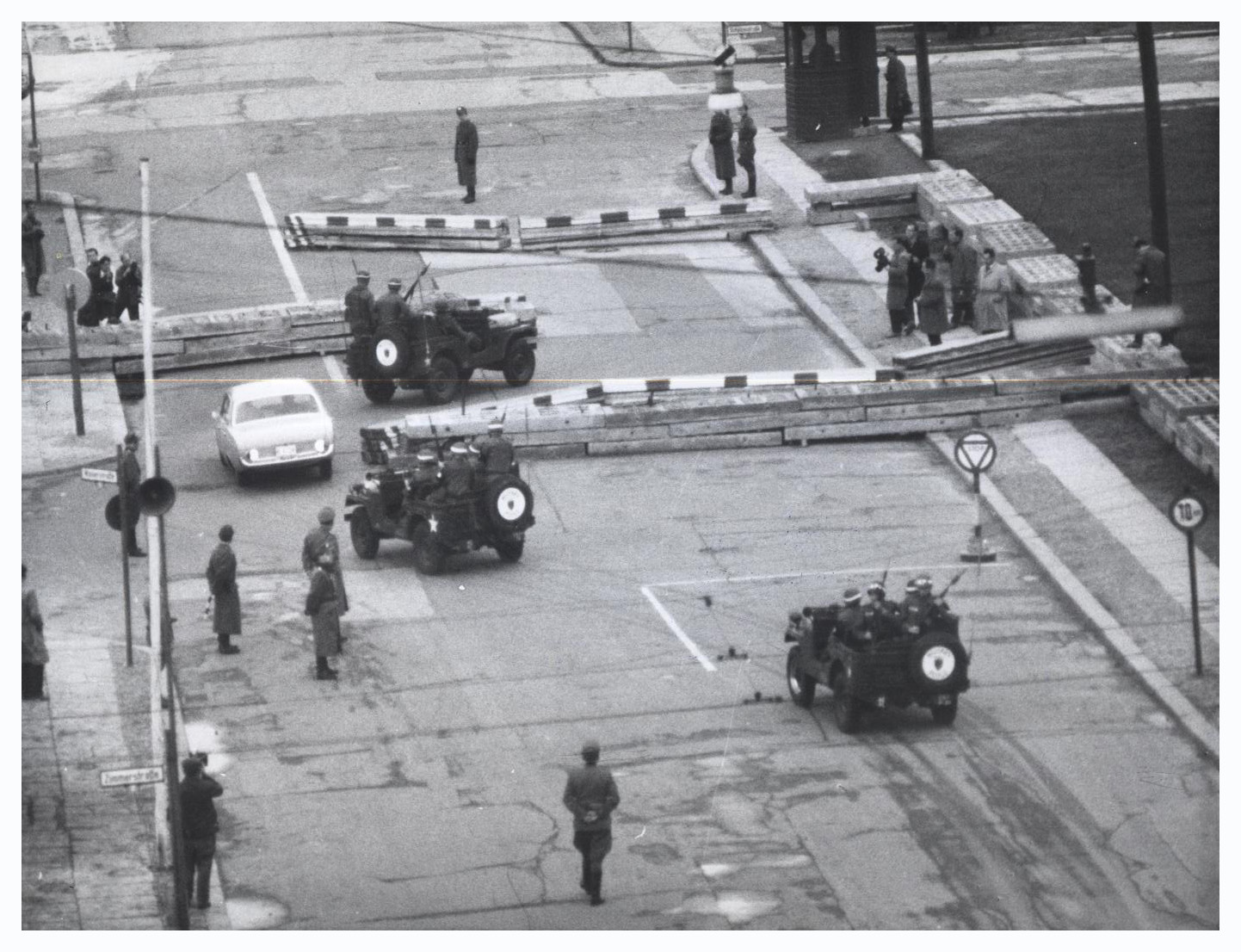 Oct. 26, 1961. Members of the U. S. Military Police escort U. S. diplomats through barriers as they cross into East Berlin. From the booklet "A City Torn Apart: Building of the Berlin Wall." For more information, visit CIA's Historical Collections webpage (